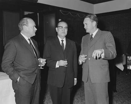 Shen Chang-huan, Republic of China foreign minister, on his July 1965 goodwill tour of Australia, conversing with Governor-General Paul Hasluck (left) and Senator John Gorton (right).